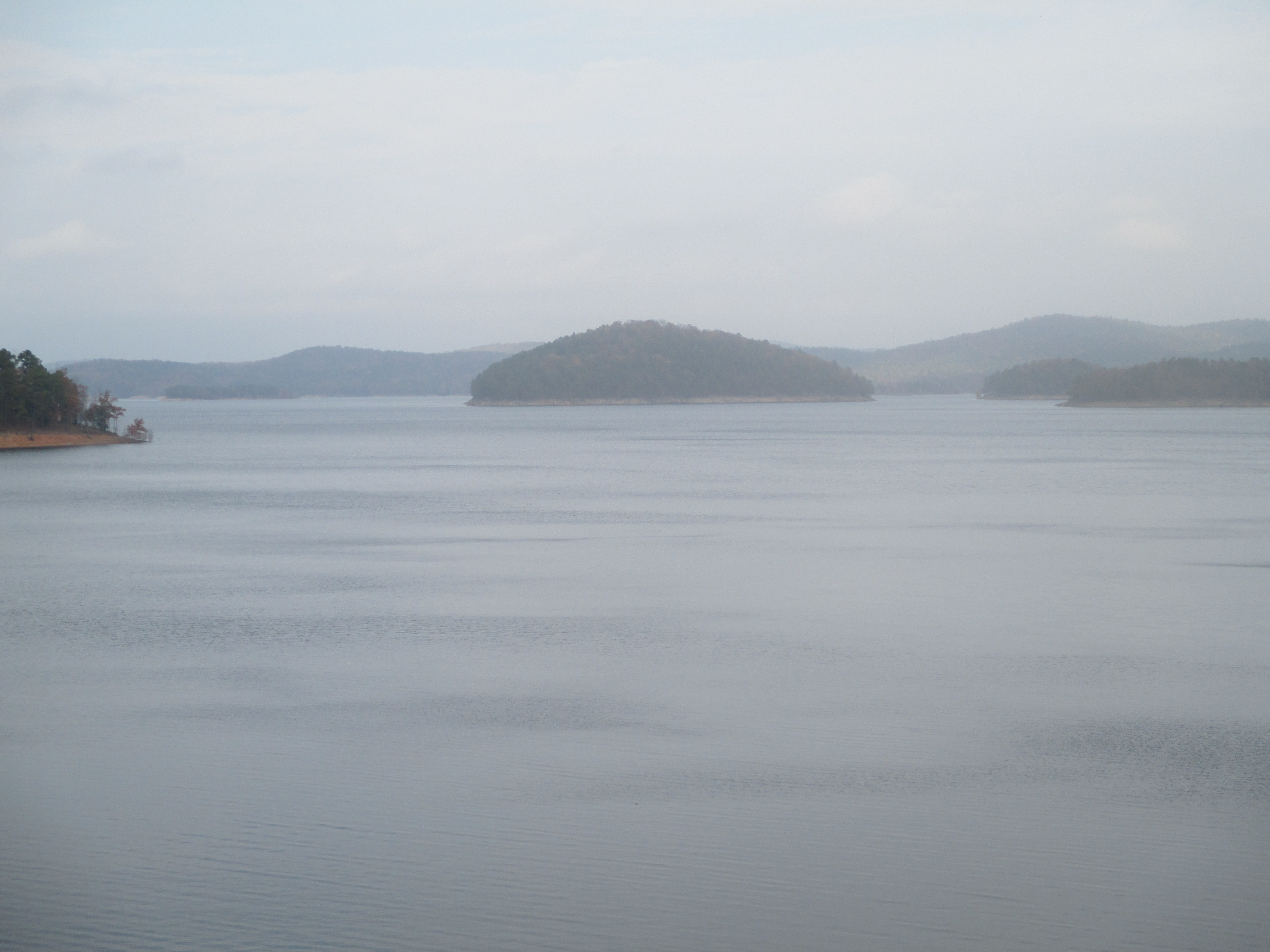 I took photo with Canon camera of Broken Bow Lake in McCurtain County, OK.